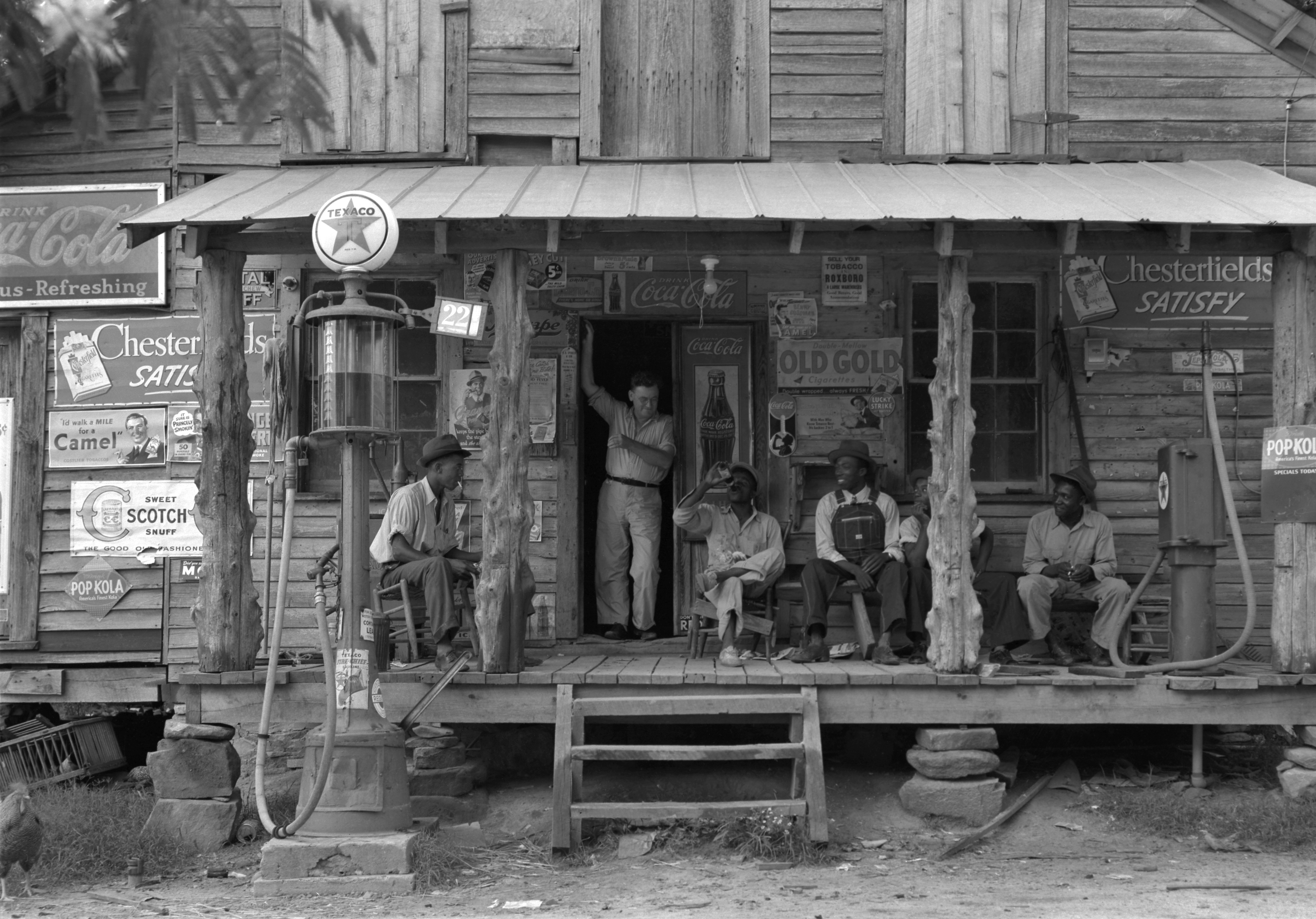 Country store on dirt road. Sunday afternoon. Note the kerosene pump on the right and the gasoline pump on the left. Rough, unfinished timber posts have been used as supports for porch roof. Negro men are sitting on the porch. Brother of store owner stands in doorway. Gordonton, North Carolina.